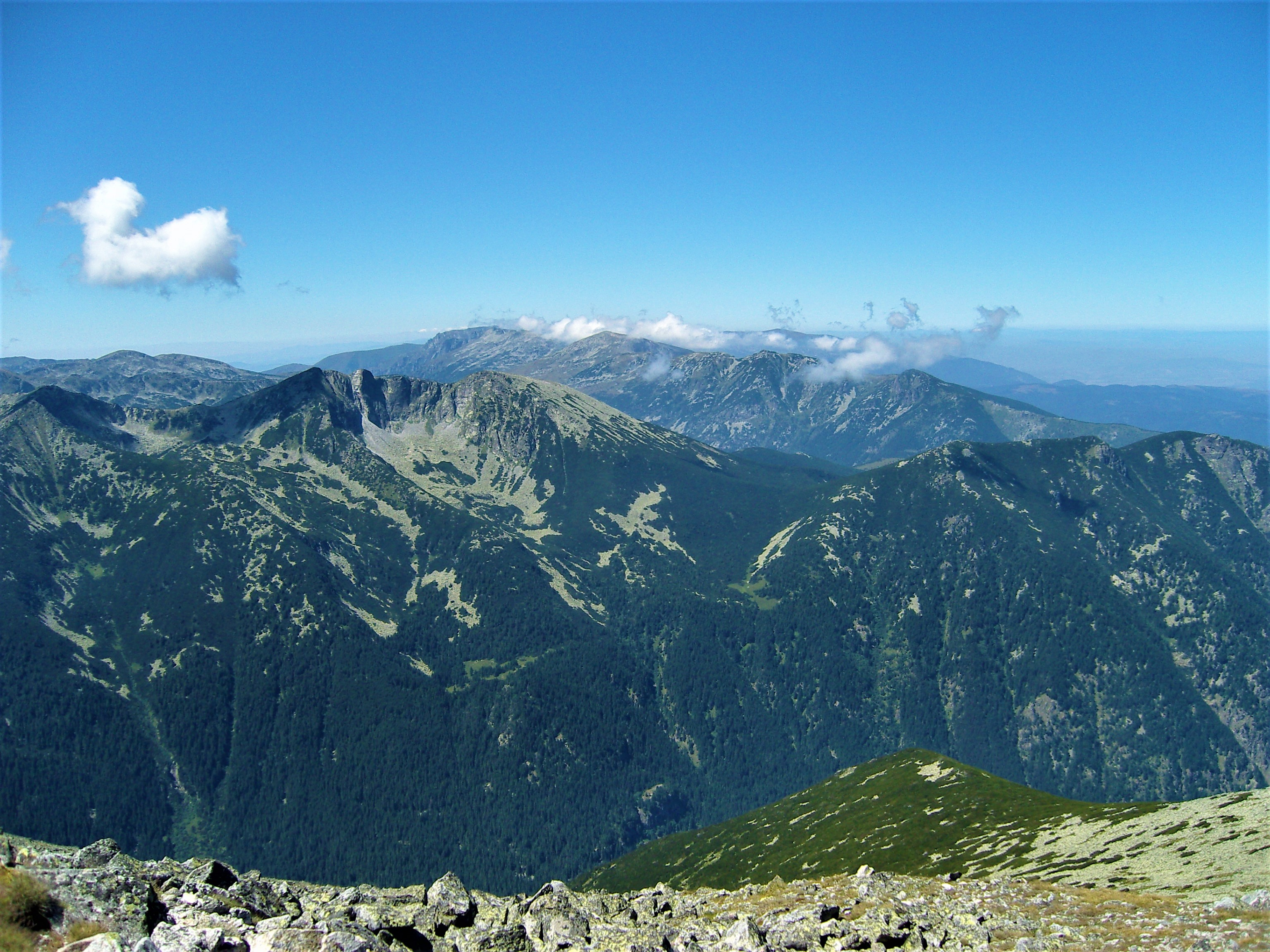 Rila National Park